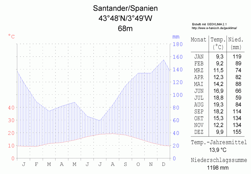 climate chart in the format by Walther and Lieth, metric, °Celsisus and millimeters, made with Geoklima 2.1